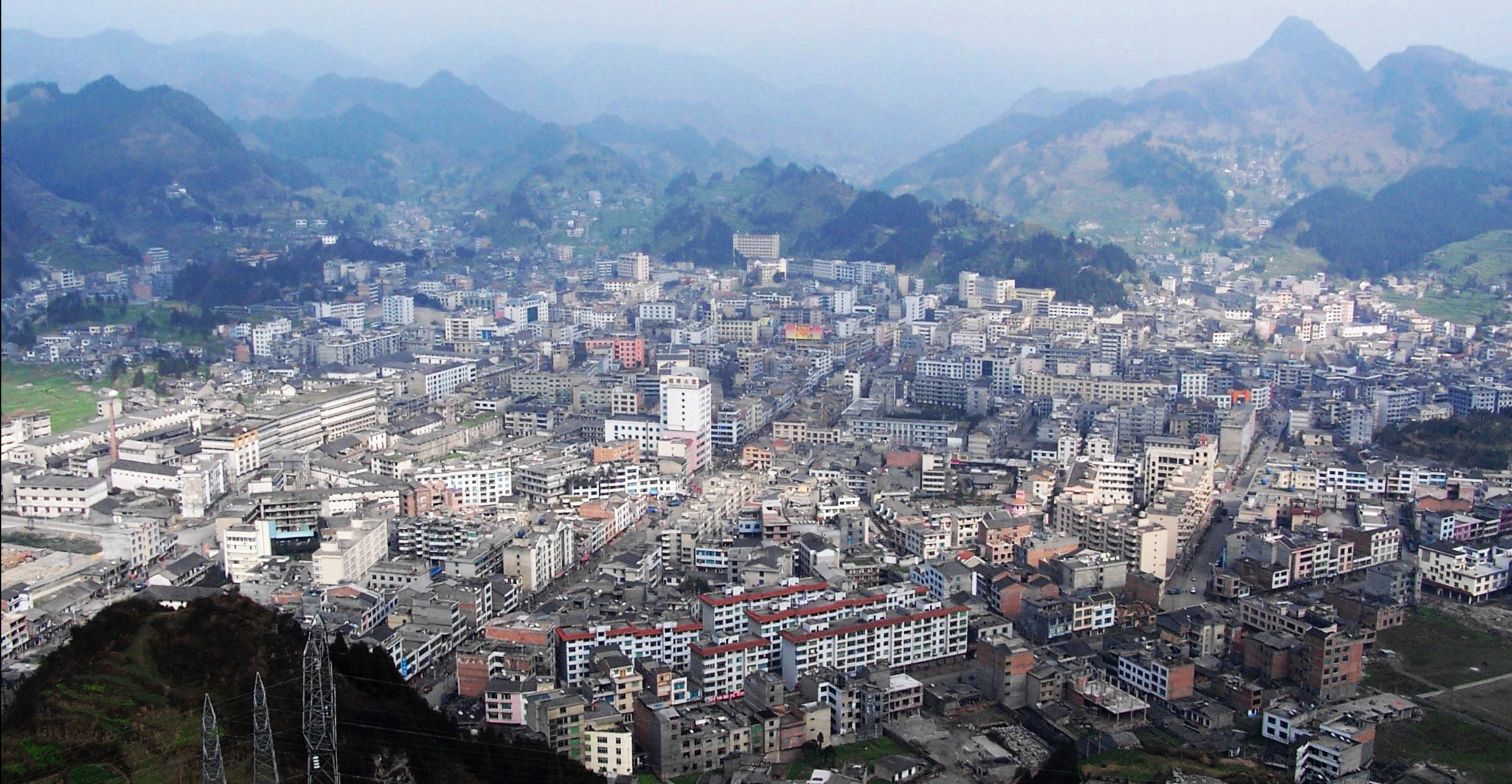 ICYWATER's hometown 中文（中国大陆）: 大白天的威信坝子